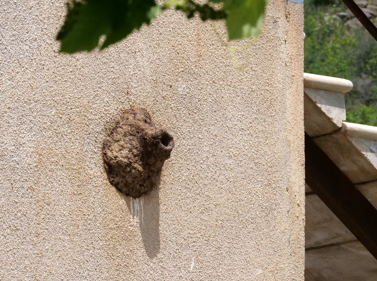 Das Klippenkleibernest klebt an einer Hauswand in Armenien (Sita tephronata), Foto: Elke Brüser